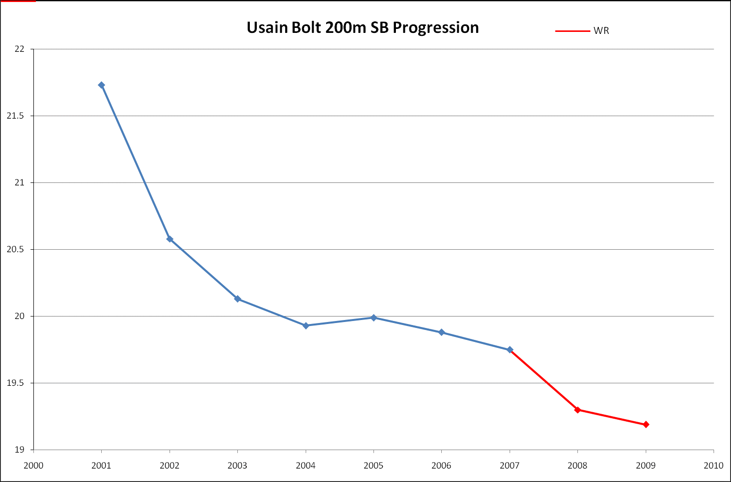 Graph of Usain Bolt's 200m times